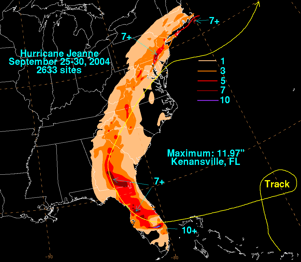 Storm total rainfall map of Hurricane Jeanne during September 2004.